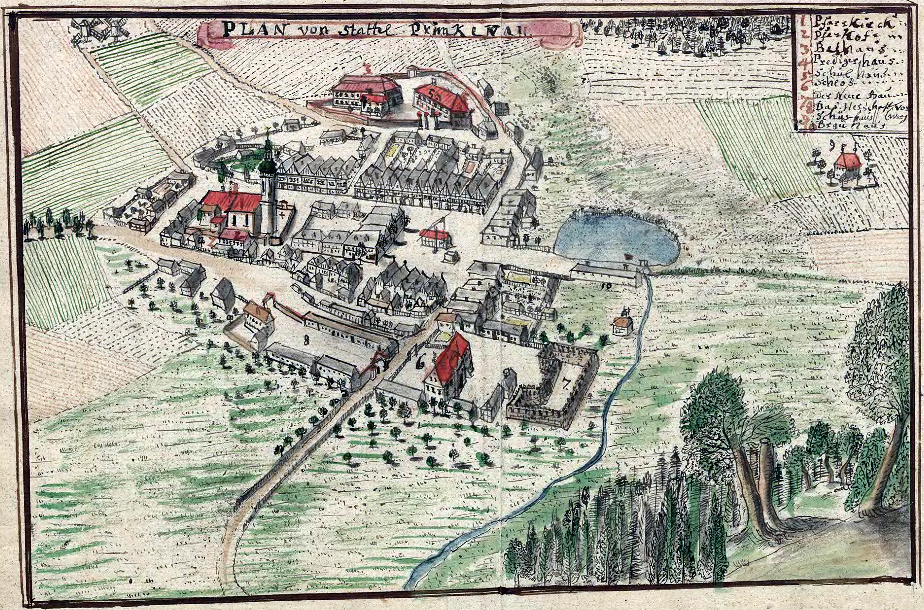 View of the city of Przemków.